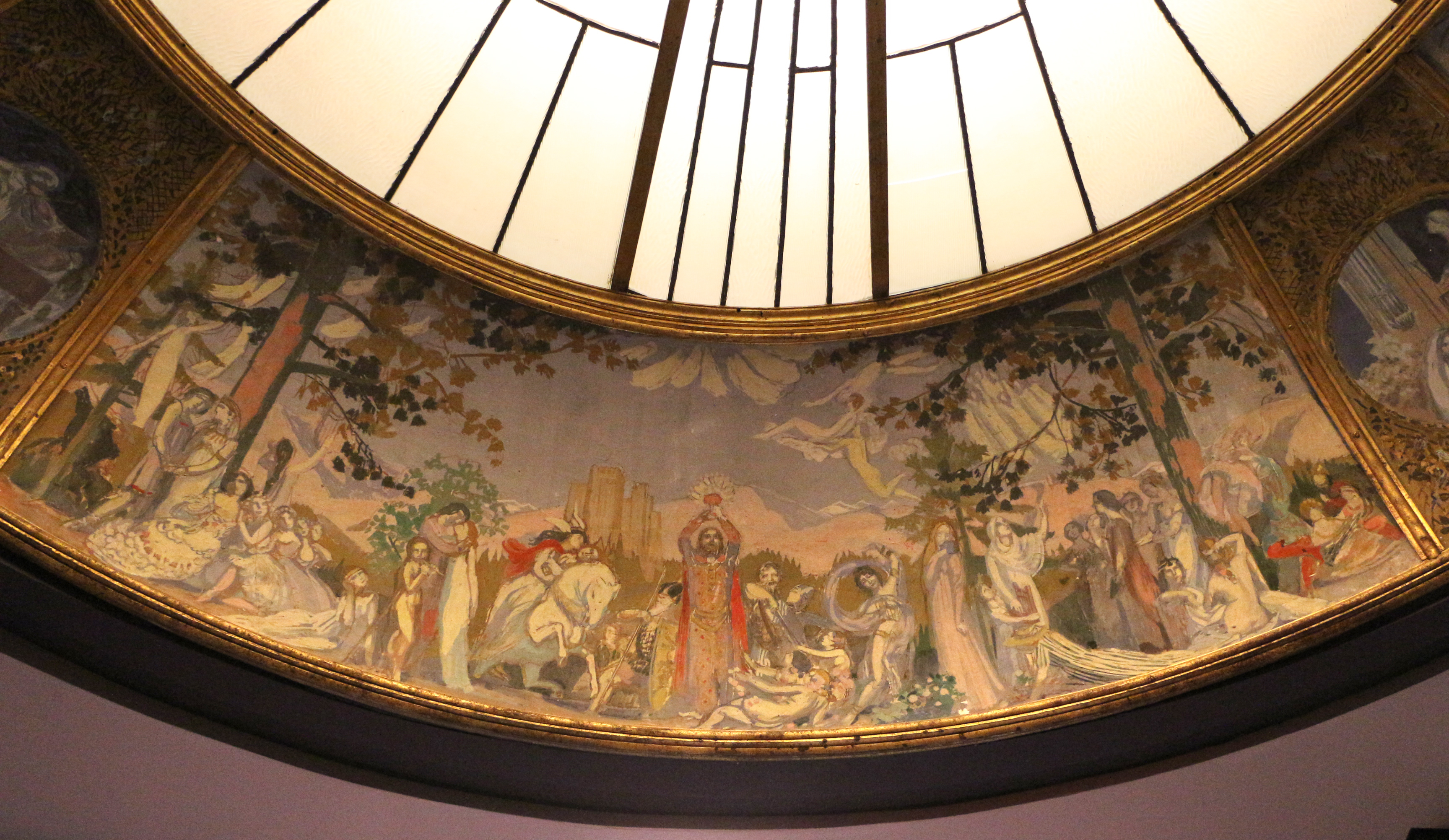 Paintings in Musée d'Orsay